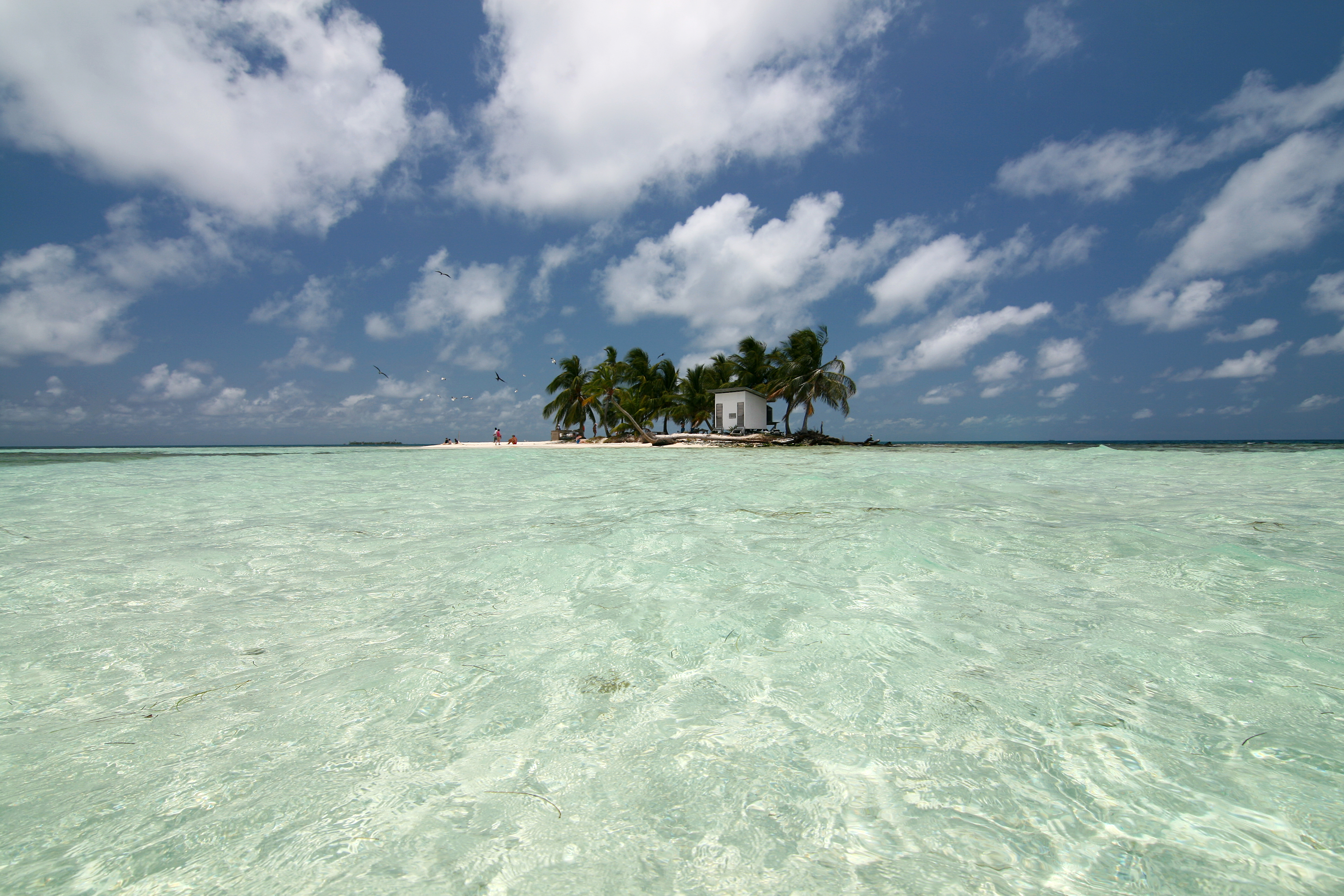 silk caye water